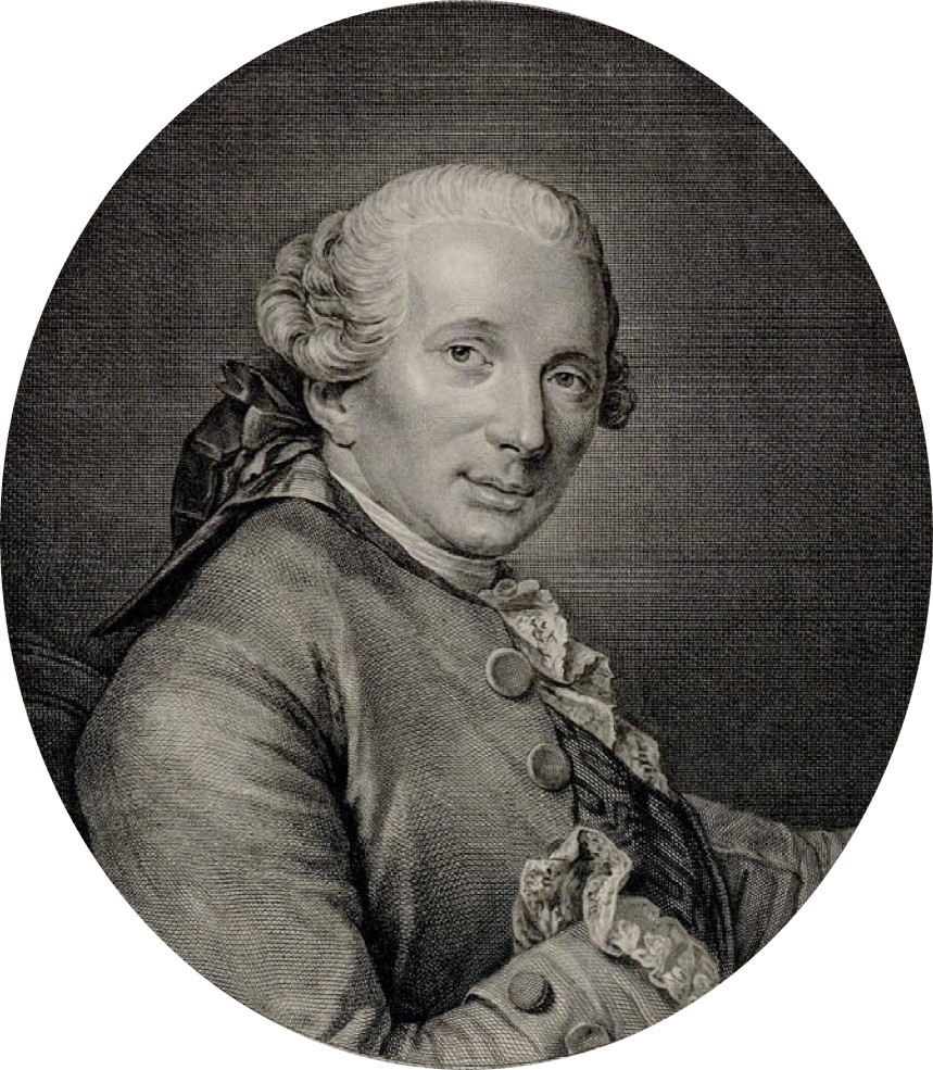 Jacques Germain Soufflot